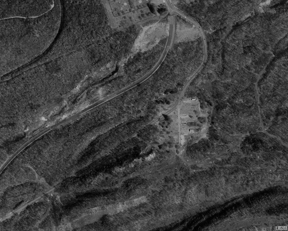 Aerial image showing the old and new alignments of Pennsylvania Route 61 near Centralia, and the clearing that was once Byrnesville.